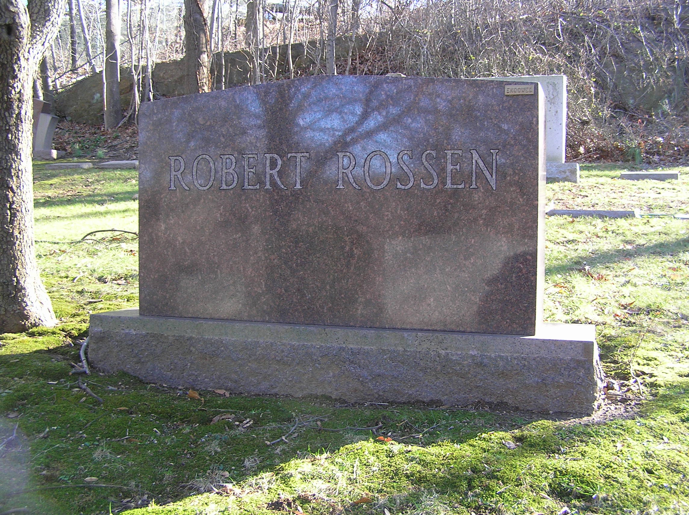 The gravesite of Robert Rossen in Westchester Hills Cemetery